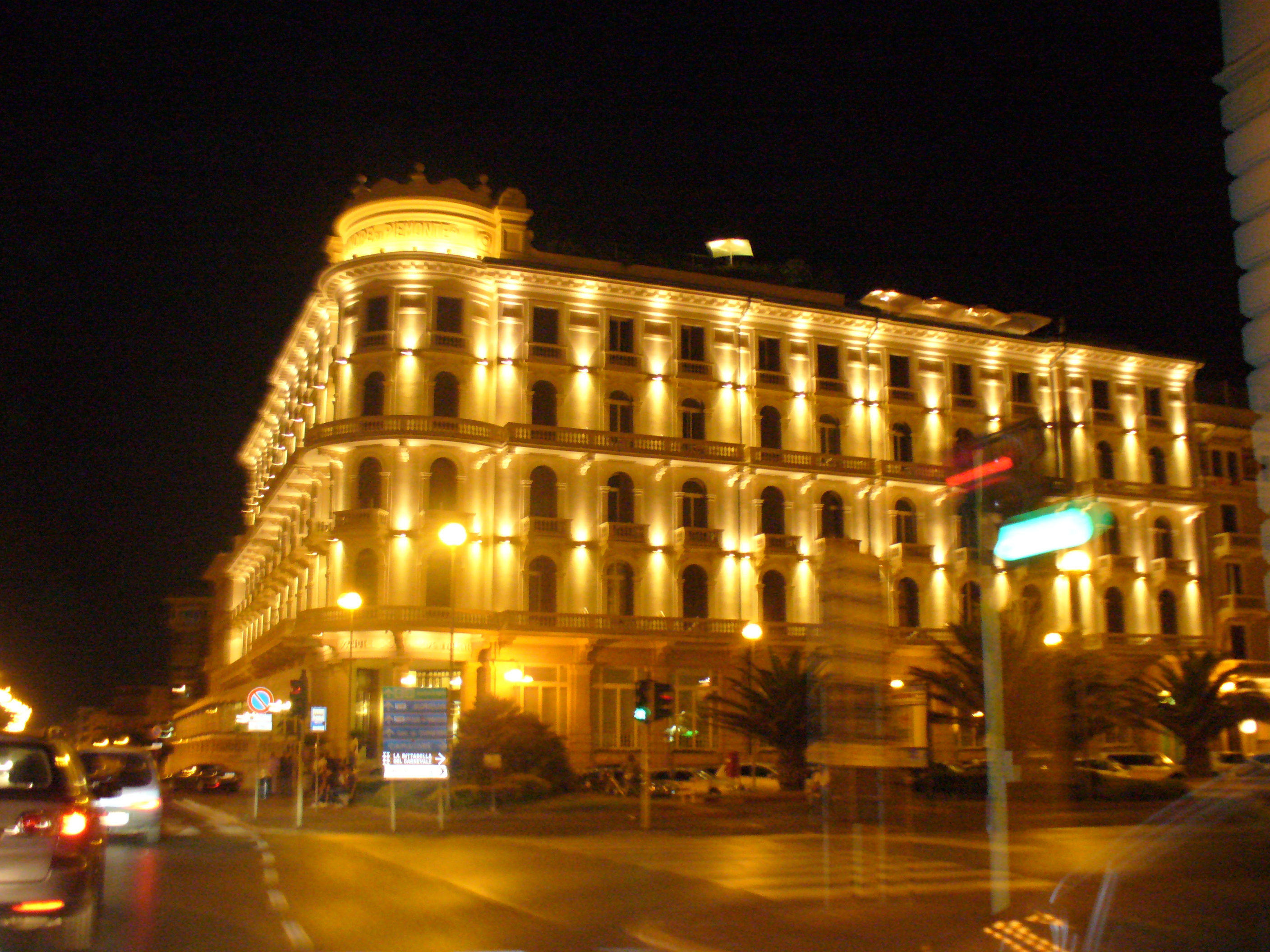 Principe di Piemonte, Viareggio. Viareggio is not the Versilia. Caution.